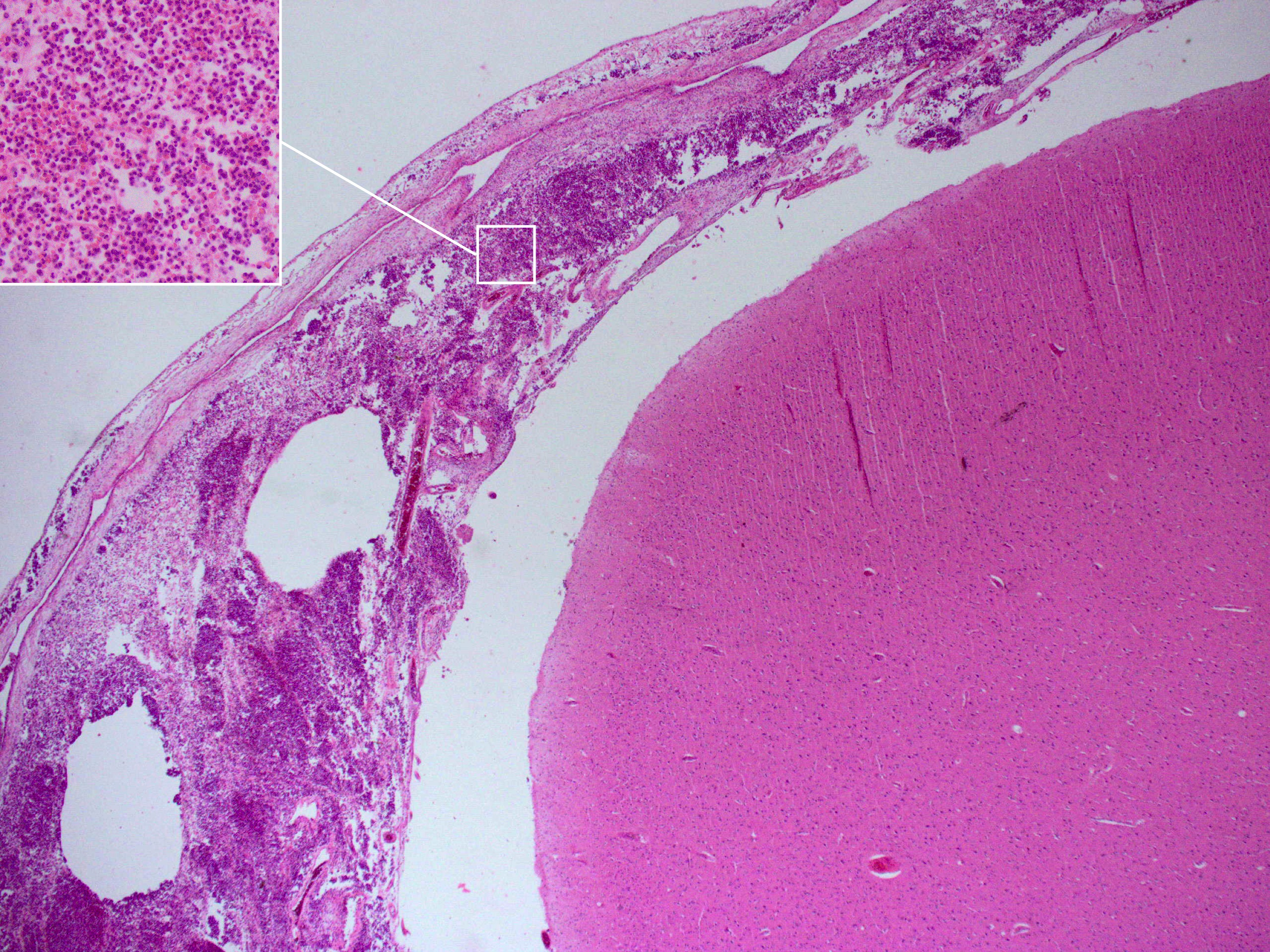 Histopathology of bacterial Meningitis: autopsy case of a patient with pneumococcal meningitis showing leptomeningeal inflammatory infiltrates consisting of neutrophilic granulocytes (inset, higher magnification). Hematoxylin-Eosin stain.